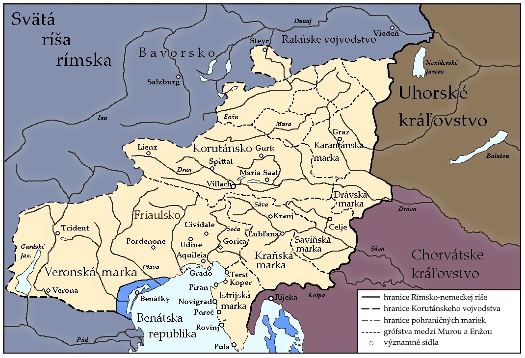 Map of Great Caranthania, in cca.1000. Source:The lland between. A History of Slovenia, ed.Oto Luthar, p.122